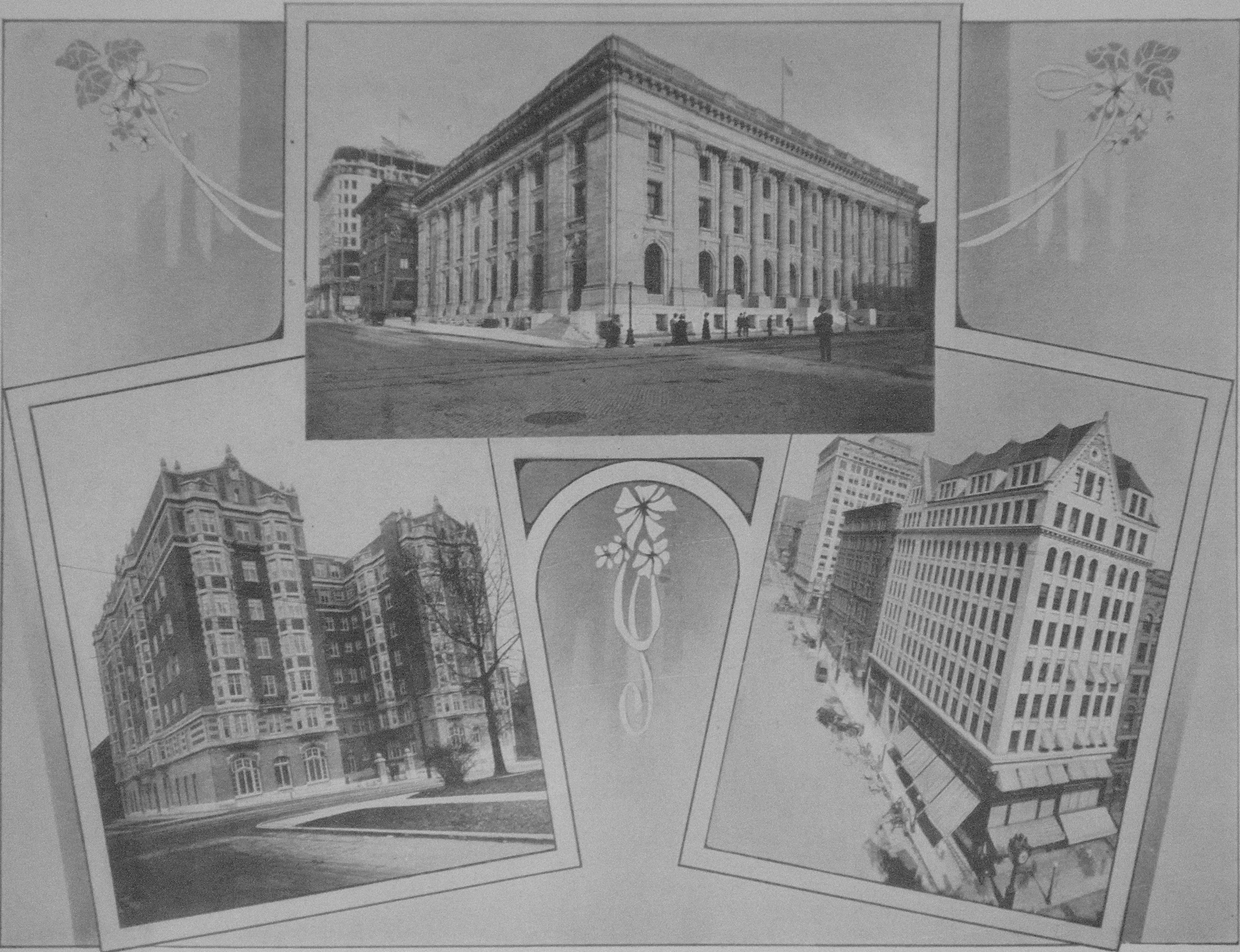 Three Seattle buildings, 1909. From left to right, the Perry Hotel, the Federal Building, and the Lowman Building. Three photos and decorative borders. The Perry Hotel was on the southwest corner of Madison and Boren on First Hill. In 1916 it became the Columbus Sanitarium (later Cabrini Hospital), which operated until 1990. After various modifications over the years, the building was demolished circa 2000 despite protests by preservationists. This Federal Building at the corner of Third and Union, later simply the downtown Seattle branch of the post office, was demolished (I believe in the 1950s) for the current downtown Seattle branch. The Lowman Building still stands on Pioneer Square.